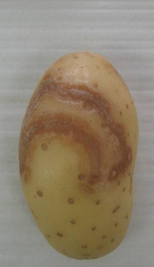 A potato demonstrating nectoric ringspot disease.